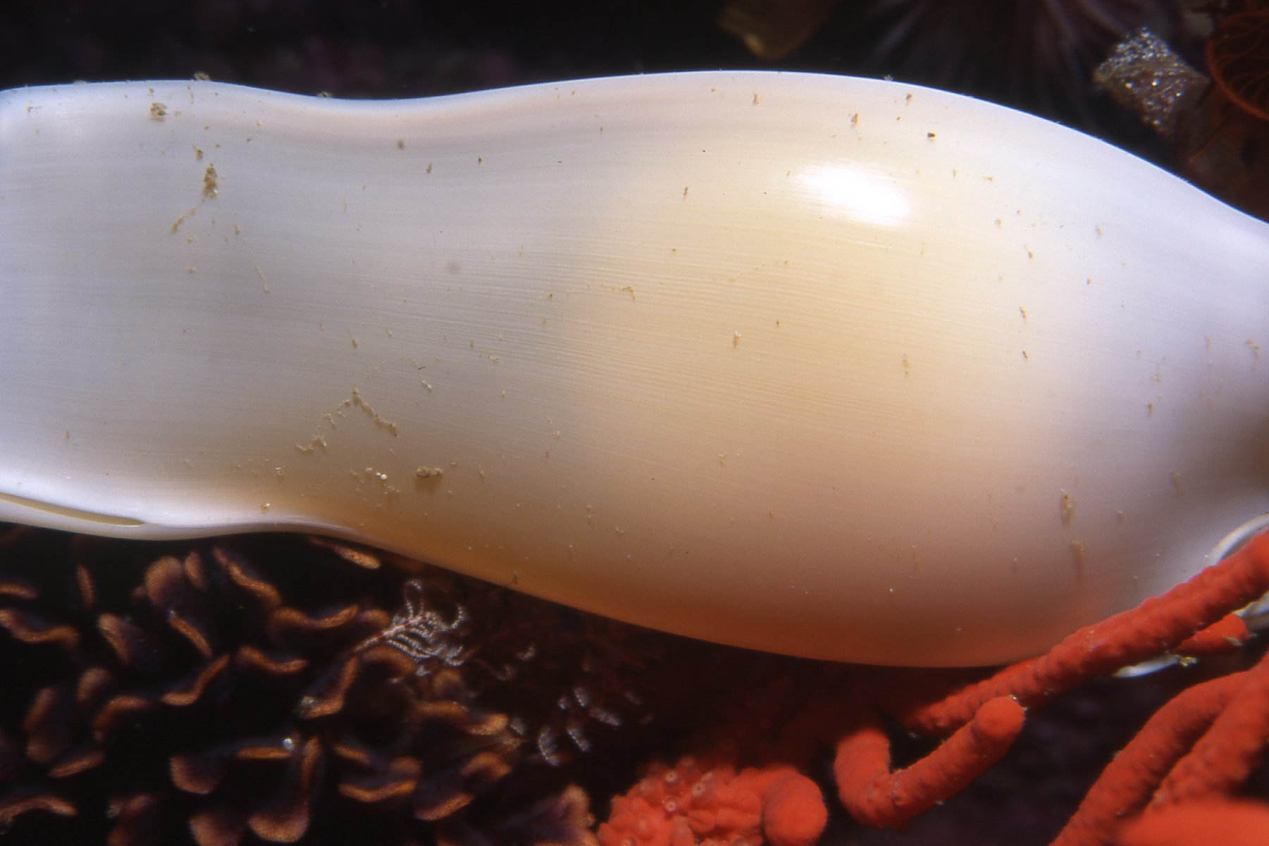 a photo of the egg case of a leopard catshark, Poroderma pantherinum, taken off the cape Peninsula in 20m of water using a Nikonos V camera